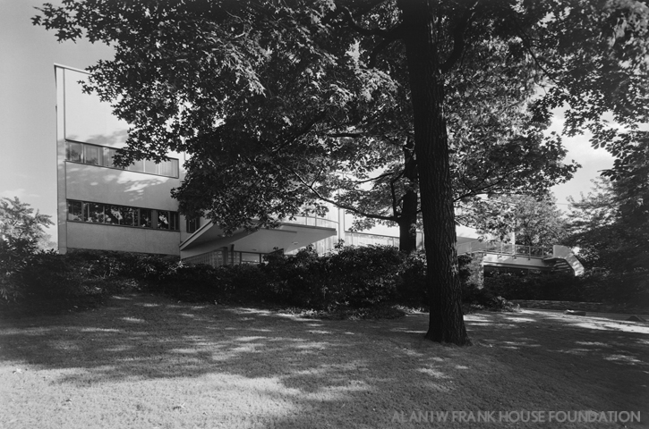 Source: The Alan I W Frank House Foundation.